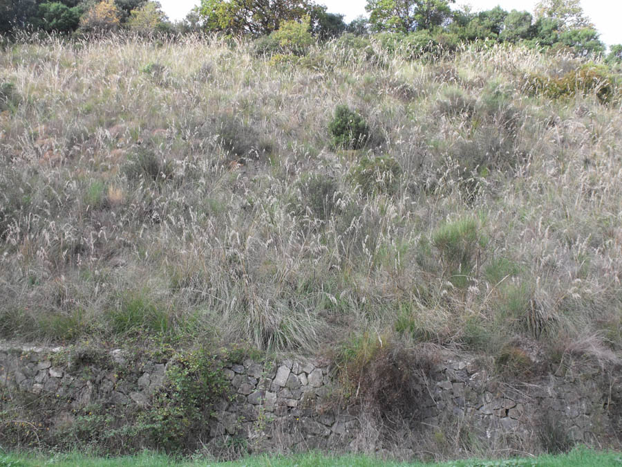 Garrigue with Ampelodesmos mauritanicus near Scansano (Grosseto province, Tuscany, central Italy).